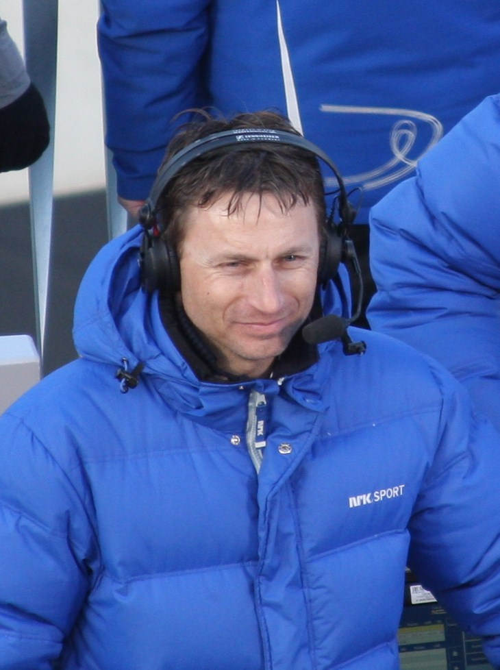 Espen Bredesen commenting WC Holmenkollen, Oslo march 2010, on behalf of Norwegian TV (NRK)